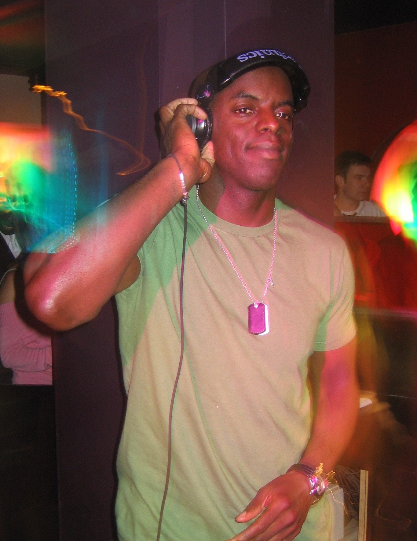 Trevor Nelson at Ballare, Cambridge in 2004